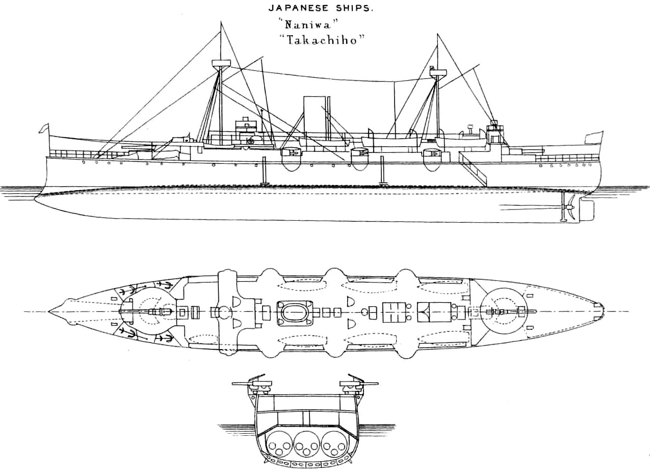 Left elevation, deck plan and hull cross-section diagrams of Japanese Naniwa class protected cruiser.